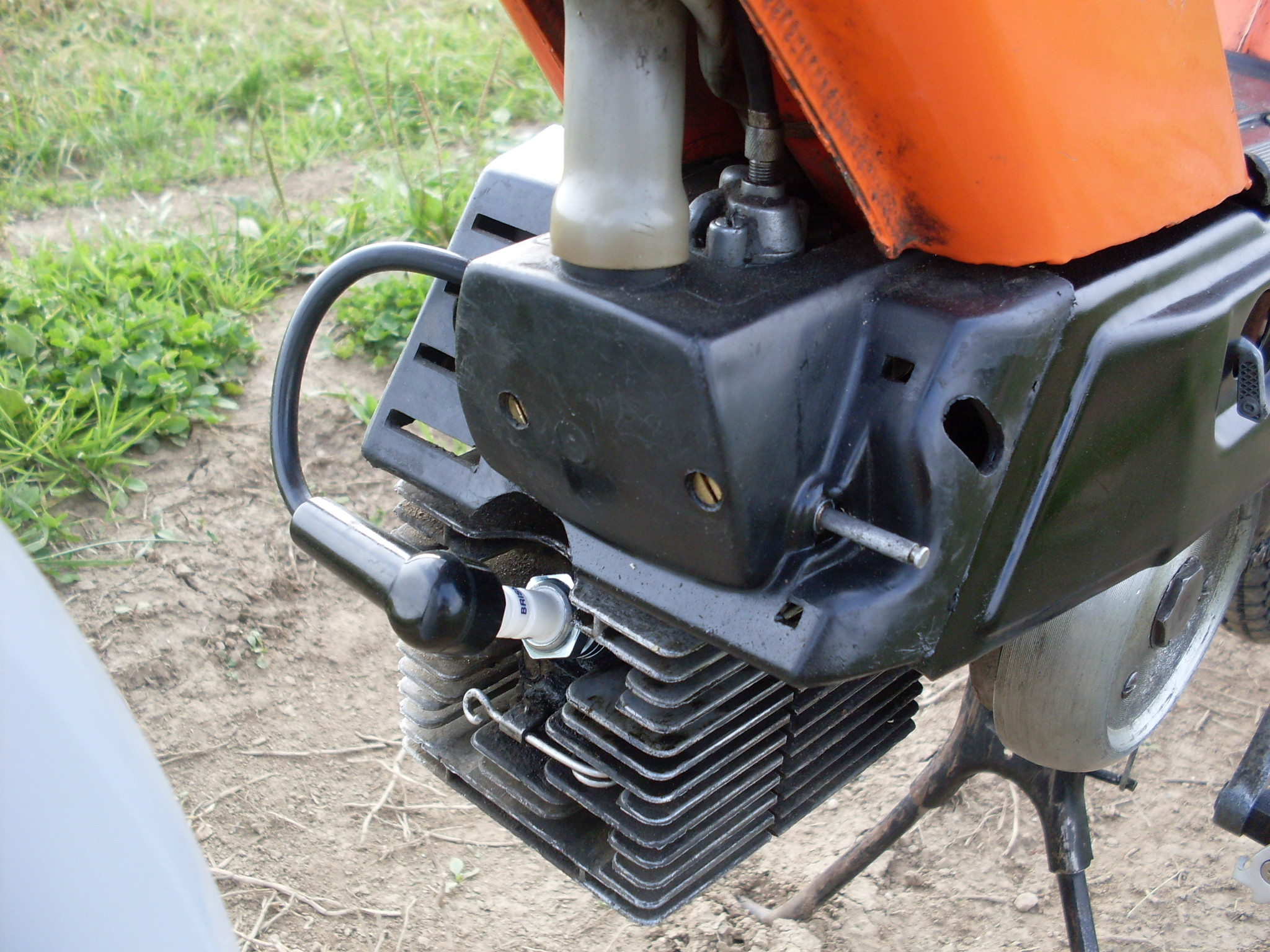 Babetta 207.300